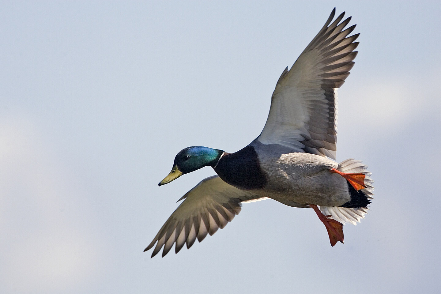 Mallard (Male), Reifel Migratory Bird Sanctuary, Ladner, British Columbia